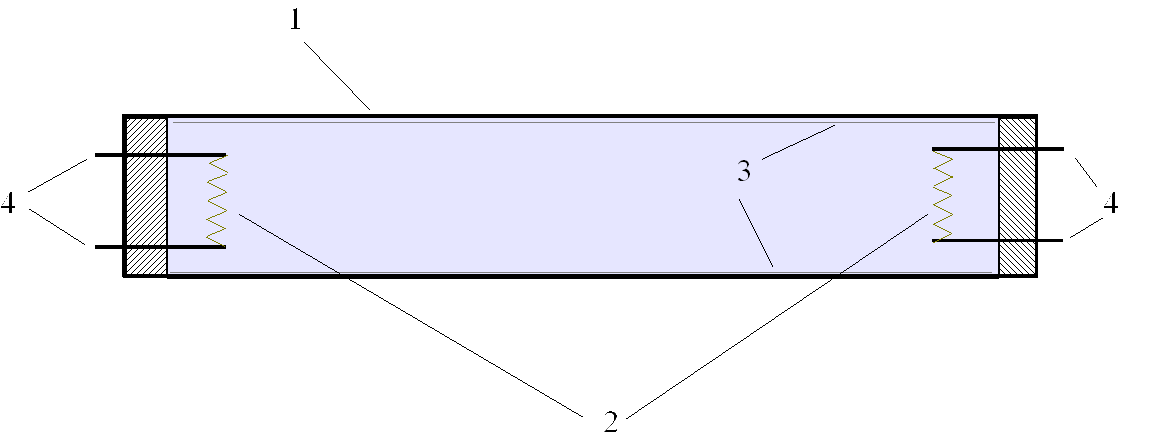 Part of fluorescent lamp - fluorescent tube